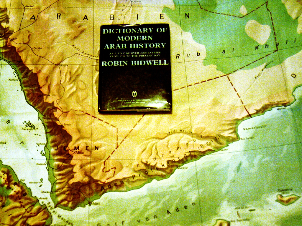 The Dictionary of Modern Arab History was Robin Bidwell's master piece (Robin Leonard Bidwell, 1929-1994, was a British orientalist and author)